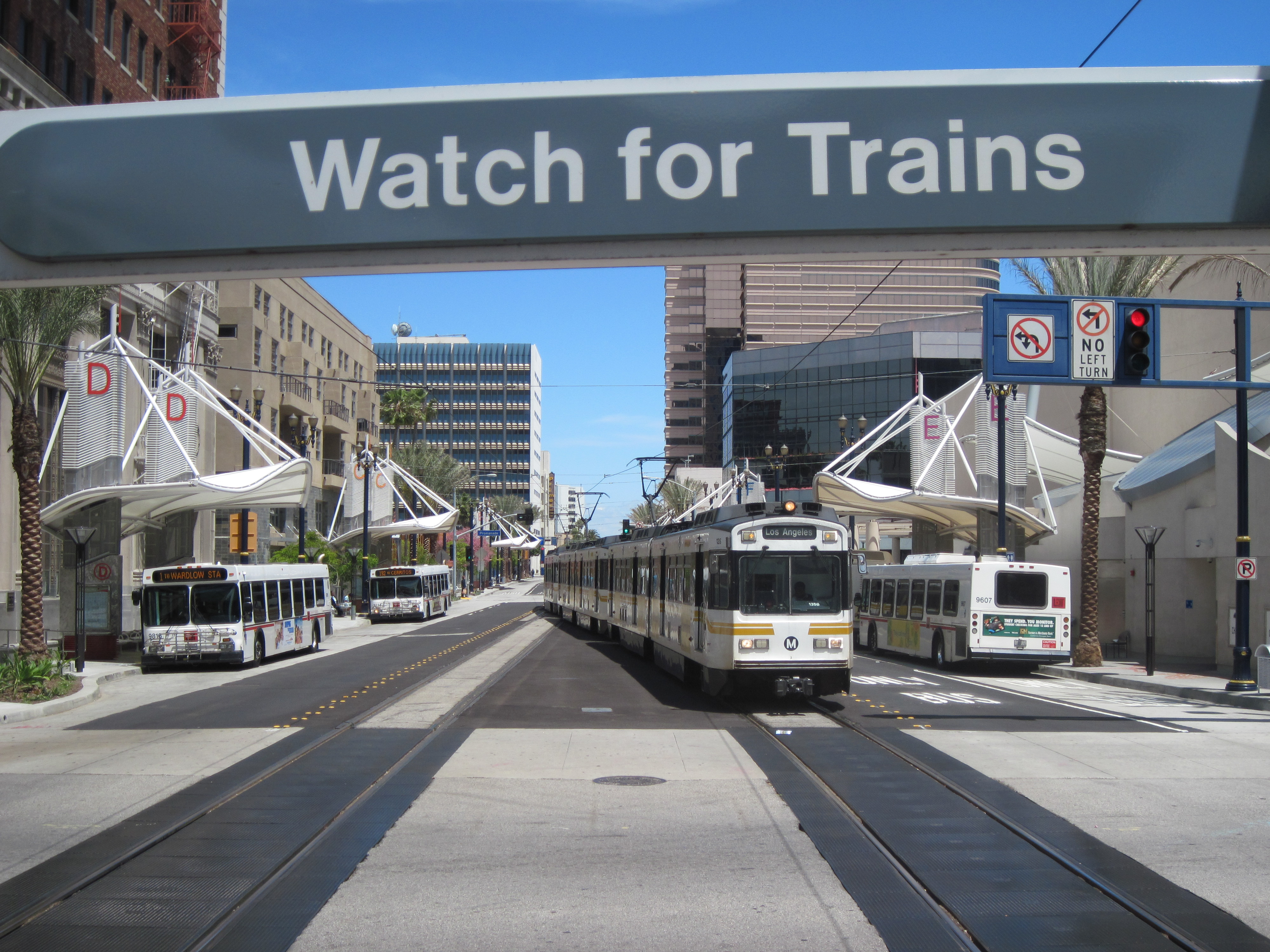 The Metro Blue Line arrives at the Long Beach Transit Gallery, a pivotal destination and transfer point for several regional bus agencies including Long Beach Transit, Los Angeles MTA, Los Angeles DOT, Torrance Transit, and OCTA.